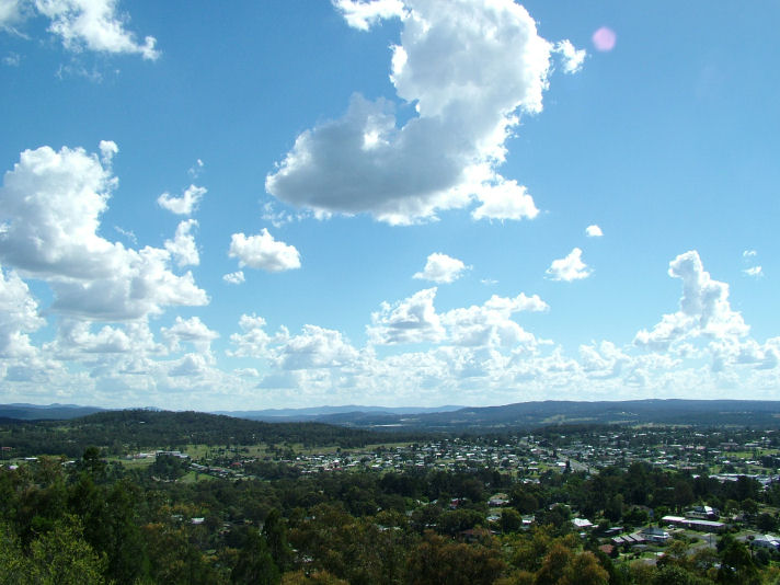 Stanthorpe township (south-west aspect) taken from Mt Marlay lookout, Lock Street Stanthorpe Queensland Australia.